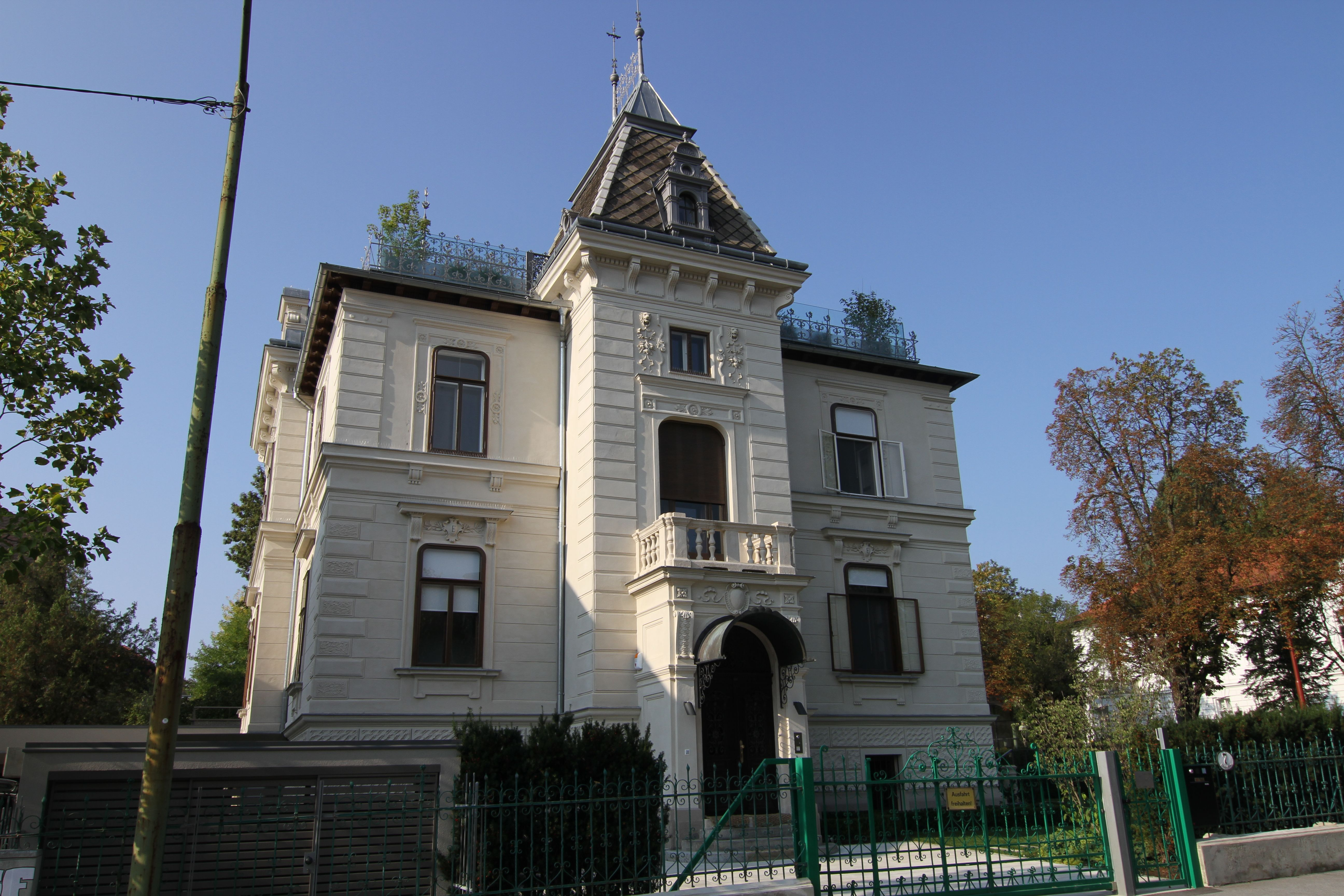 Villa, Lenaugasse 7, Graz, Austria